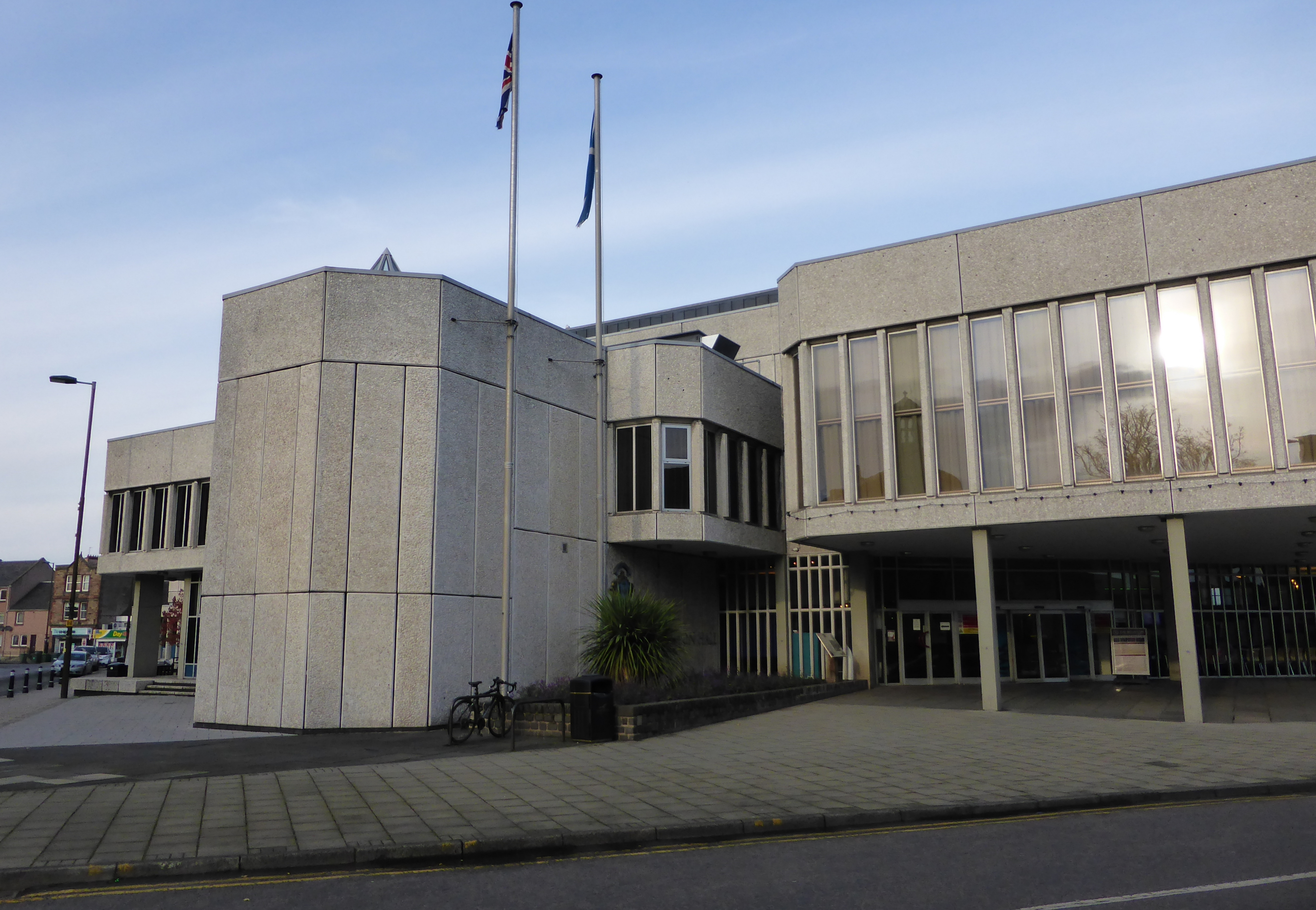 Part of the civic complex designed by Rowand Anderson, Kininmonth & Paul. Opened in 1971.